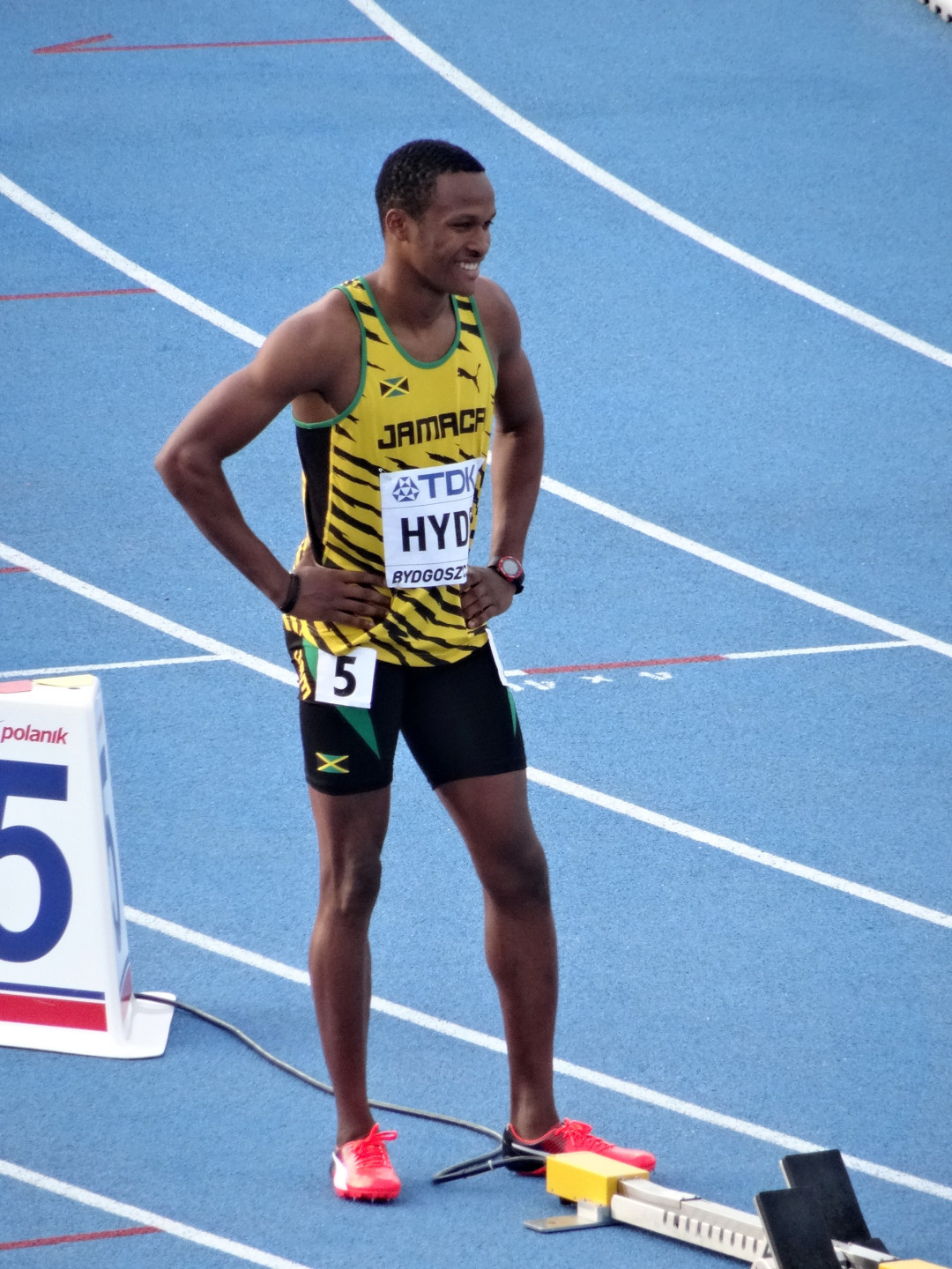 2016 IAAF World U20 Championships in Bydgoszcz, 400m hurdles men final